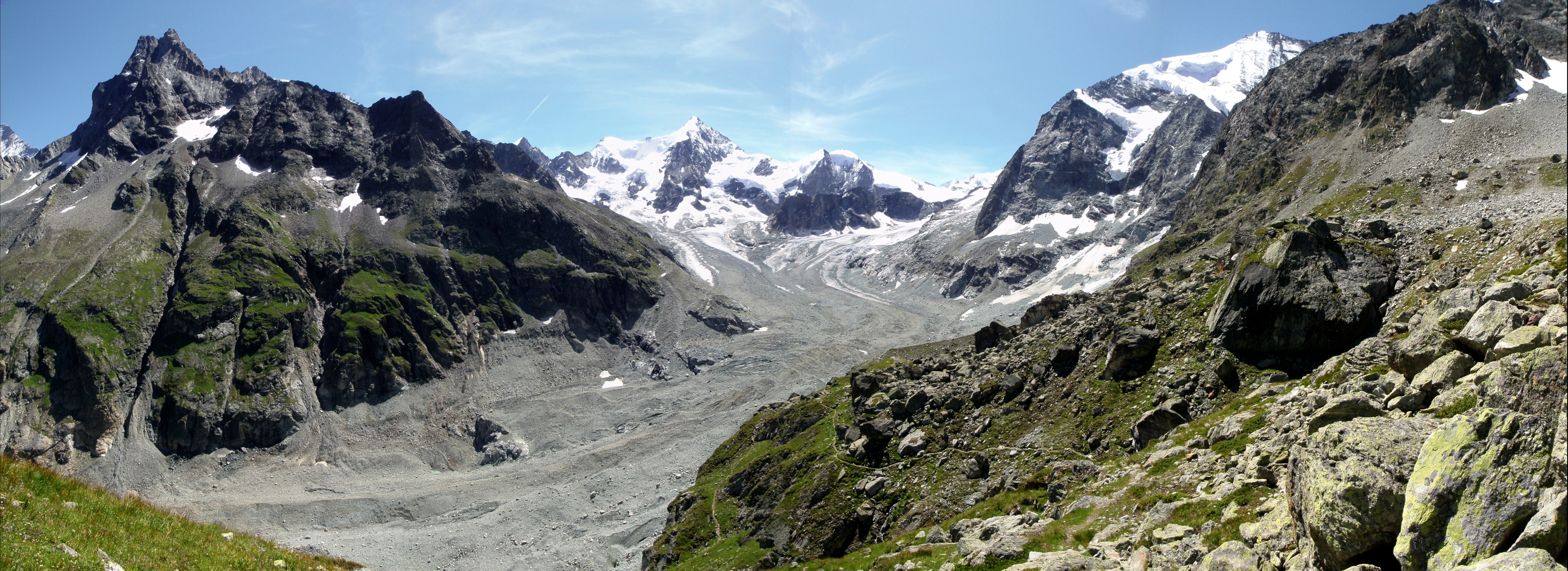 Val de Zinal with Glacier de Zinal in the Pennine Alps, Valais, Switzerland. In the background the summits of Besso (3.668 m), Trifthorn (3.728 m), Wellenkuppe (3.903 m), Ober Gabelhorn (4.068 m), Mont Durand (3.712 m) and Grand Cornier (3.961 m). Photo was taken on the way from Petit to Grand Mountet.